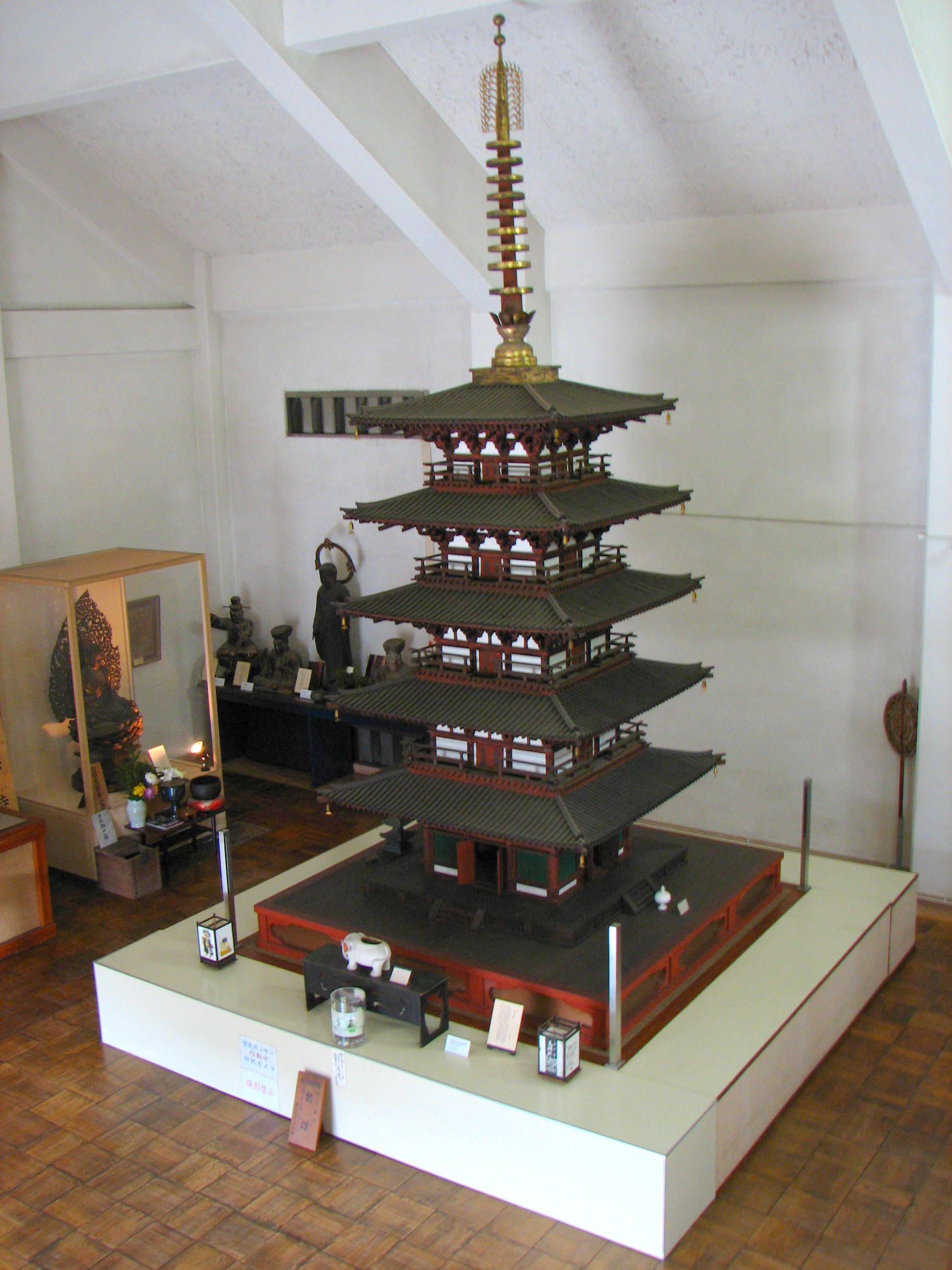 Miniature pagoda of Gango-ji temple, Nara, Nara Prefecture, Japan